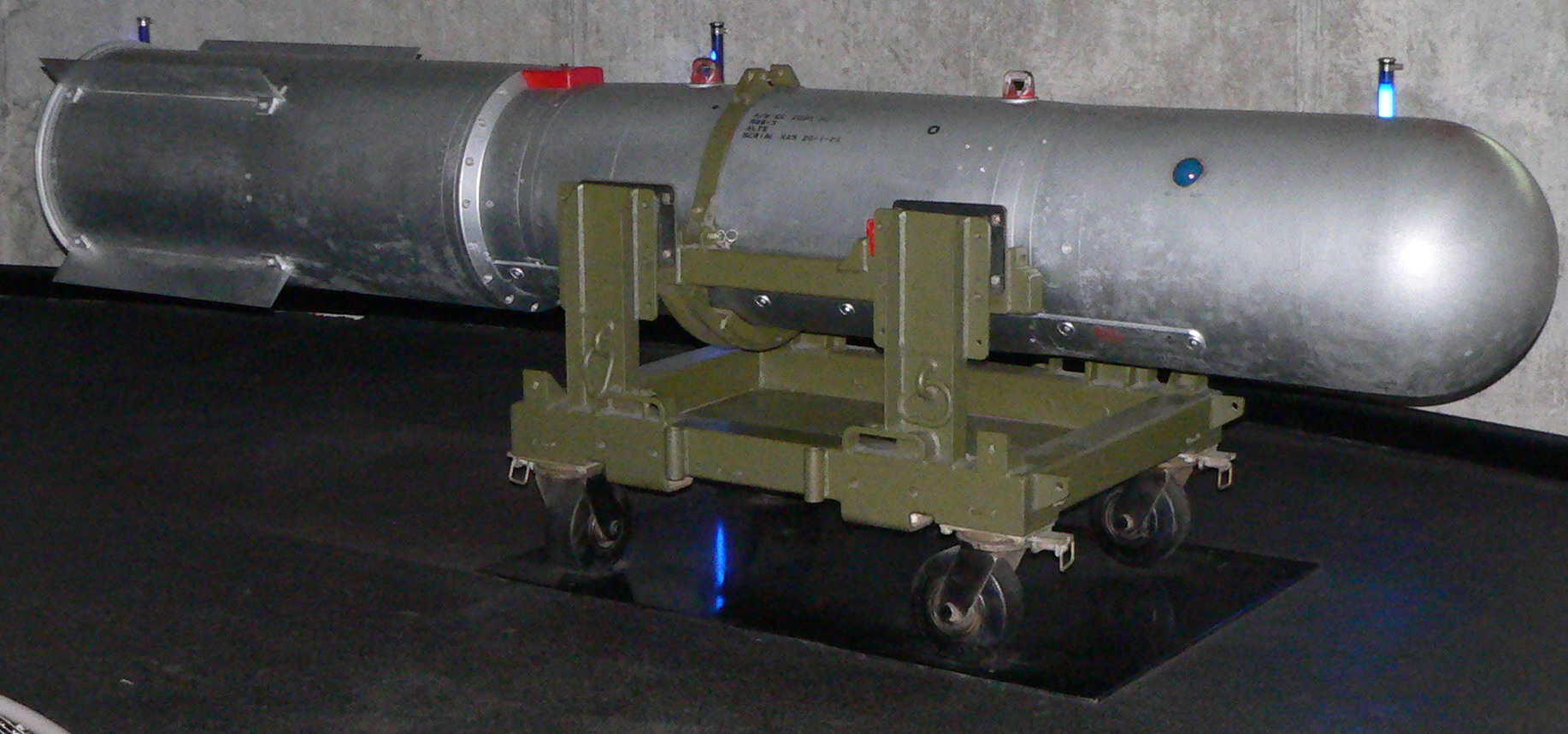 A thermonuclear bomb, produced in 1962, exhibited at the Memorial de Caen (France). The bomb was a Type 28 F1 Mark (also described as a B28 FI).